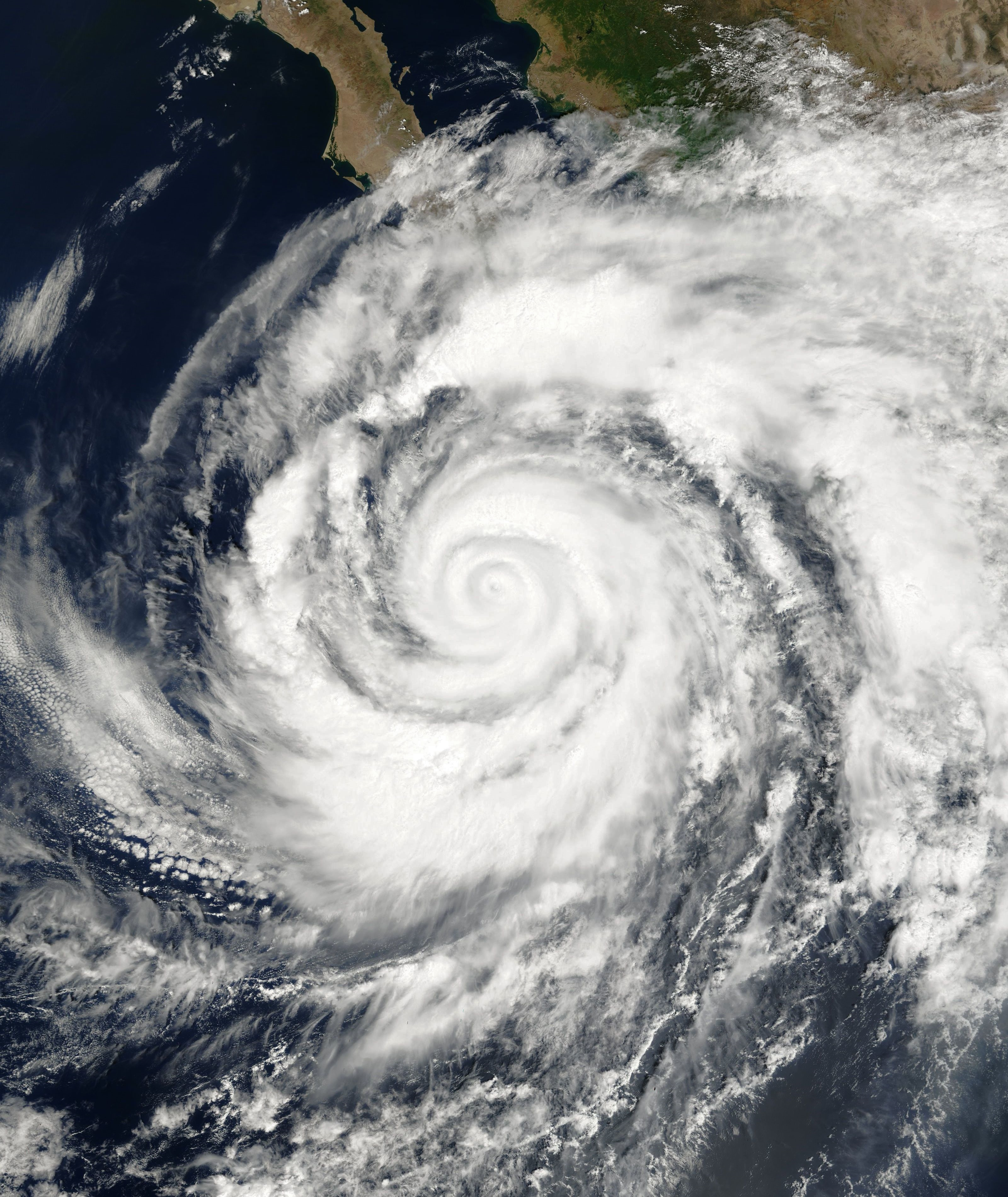 Hurricane Juliette exhibiting triple eyewalls on September 26, 2001